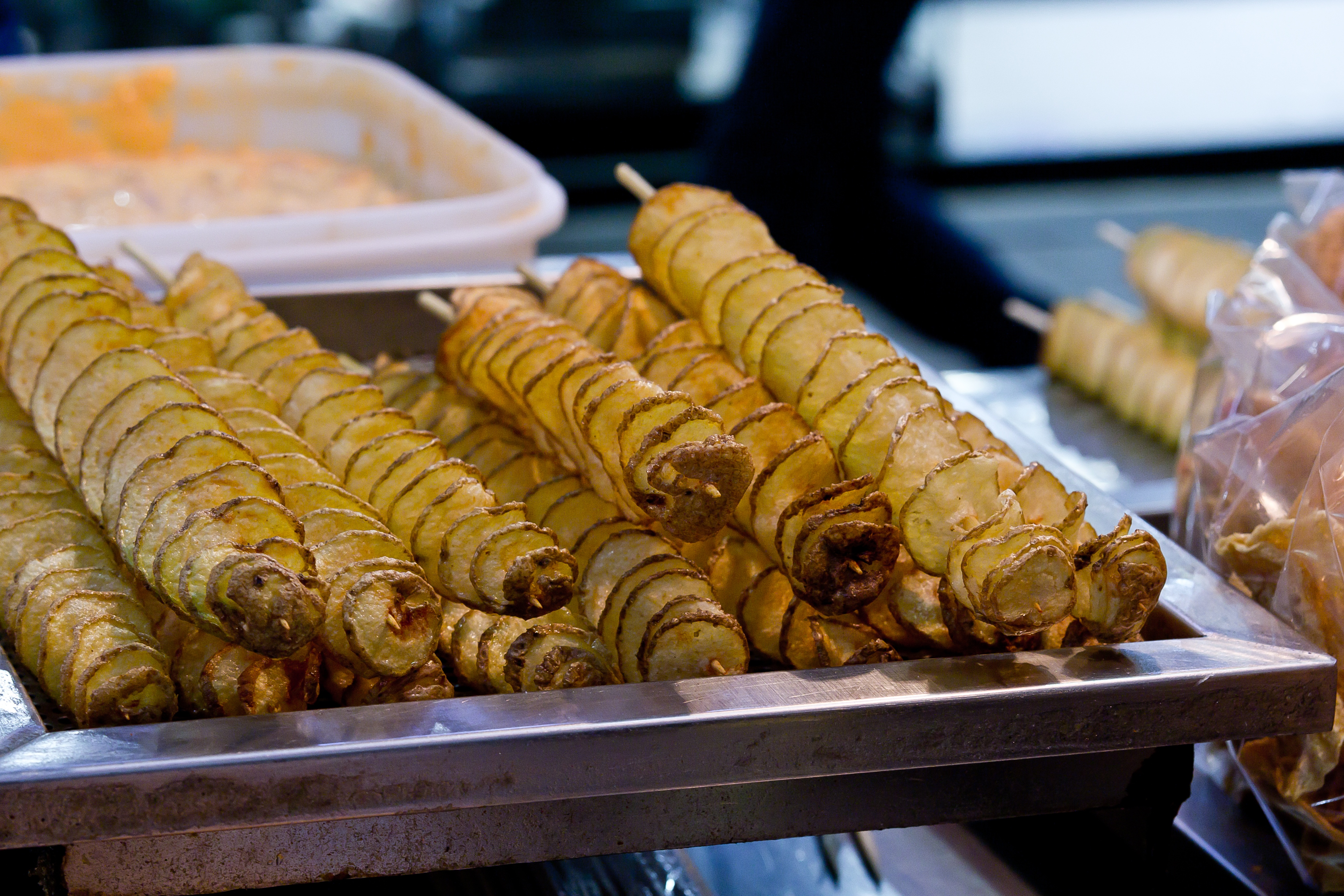 Tornado gamja (Seoul street food) tornado potato